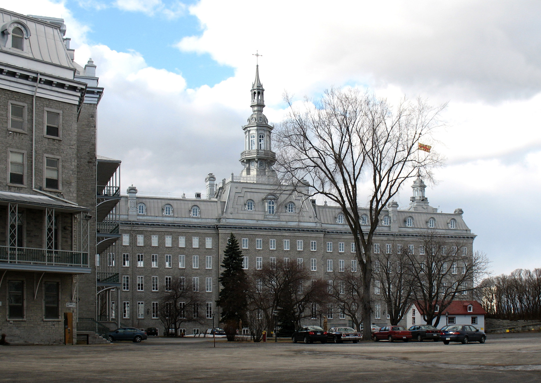 Grand Seminary of Quebec, Quebec City, Quebec, Canada